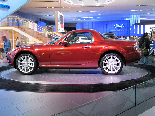 2007 Mazda MX-5 Mk III coupe roadster on an auto show.